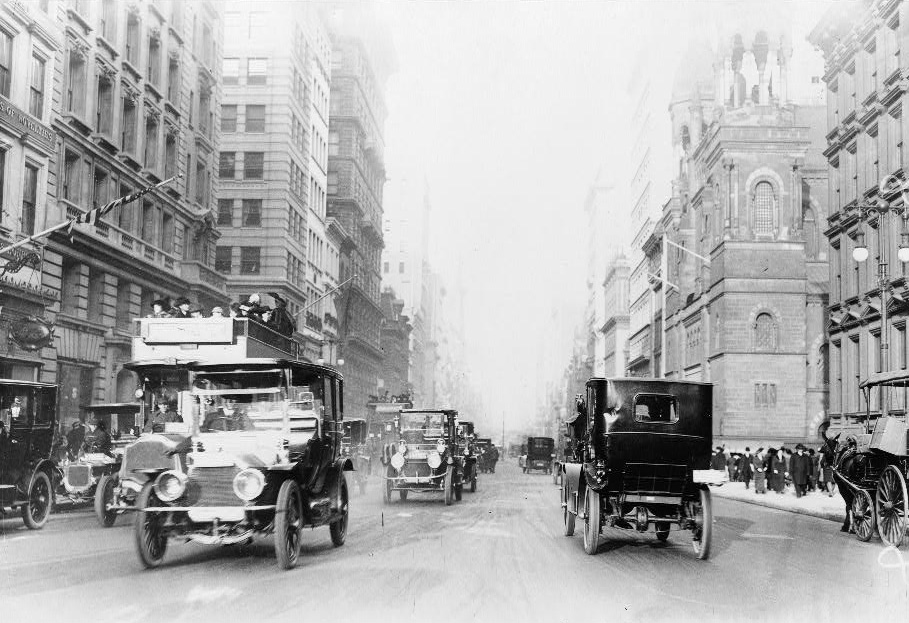 New York City street scenes - 5th Avenue. Photograph with period automobiles, 1918